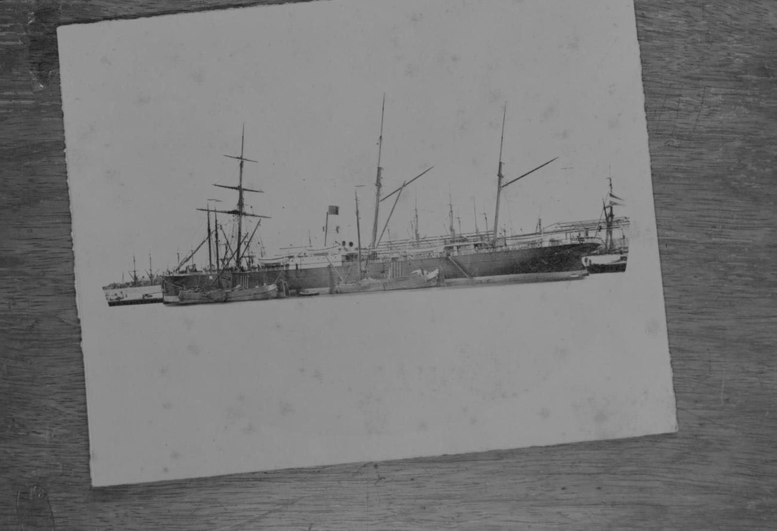 Photo of SS Koning der Nederlanden of the SMN (1872-1881) In 1881 she sank in the Indian Ocean with heavy loss of life.